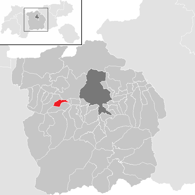 District Innsbruck Land